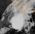 1985's TD 25E